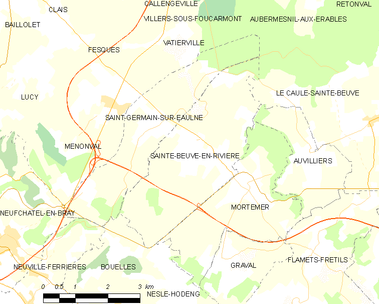 Map of French municipality Sainte-Beuve-en-Rivière